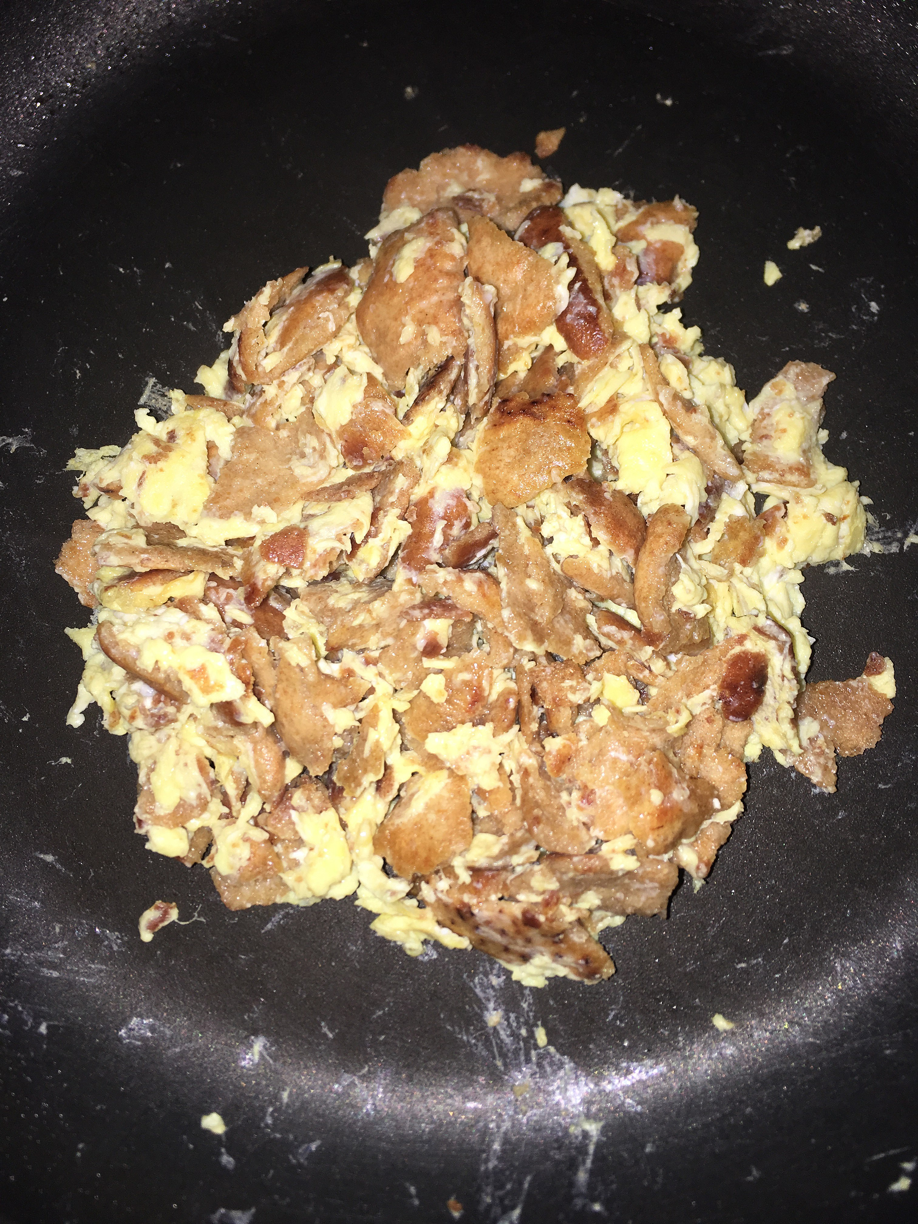 A photo of the Yemenite-Jewish Israeli dish Fatoot Samneh.